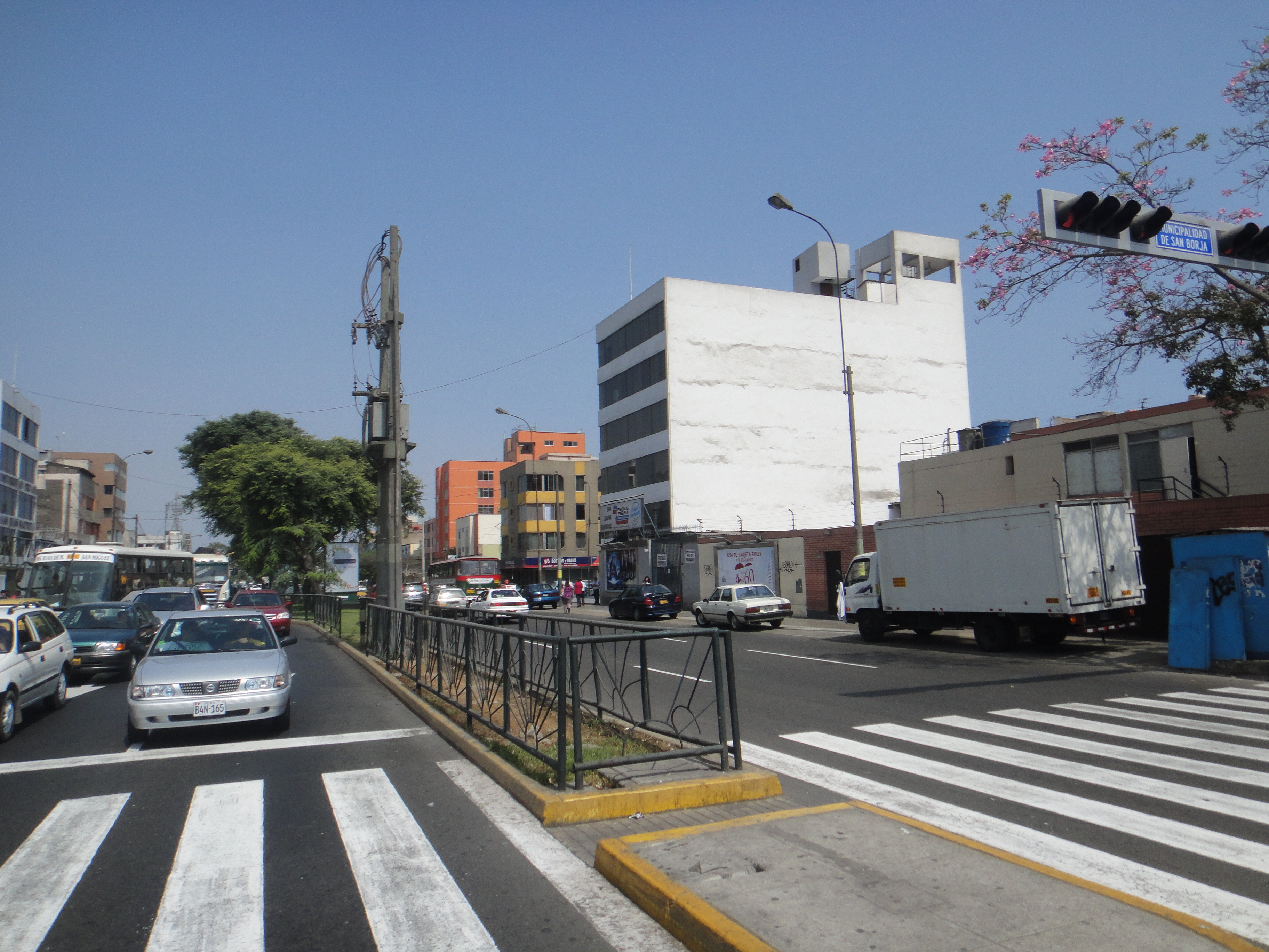 San Luis Ave in San Borja District, Lima-Peru.